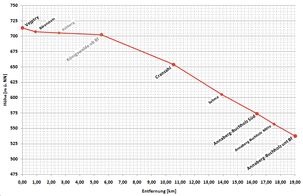 simplified altitude-profile of railway track Vejprty–Annaberg-Buchholz unt Bf